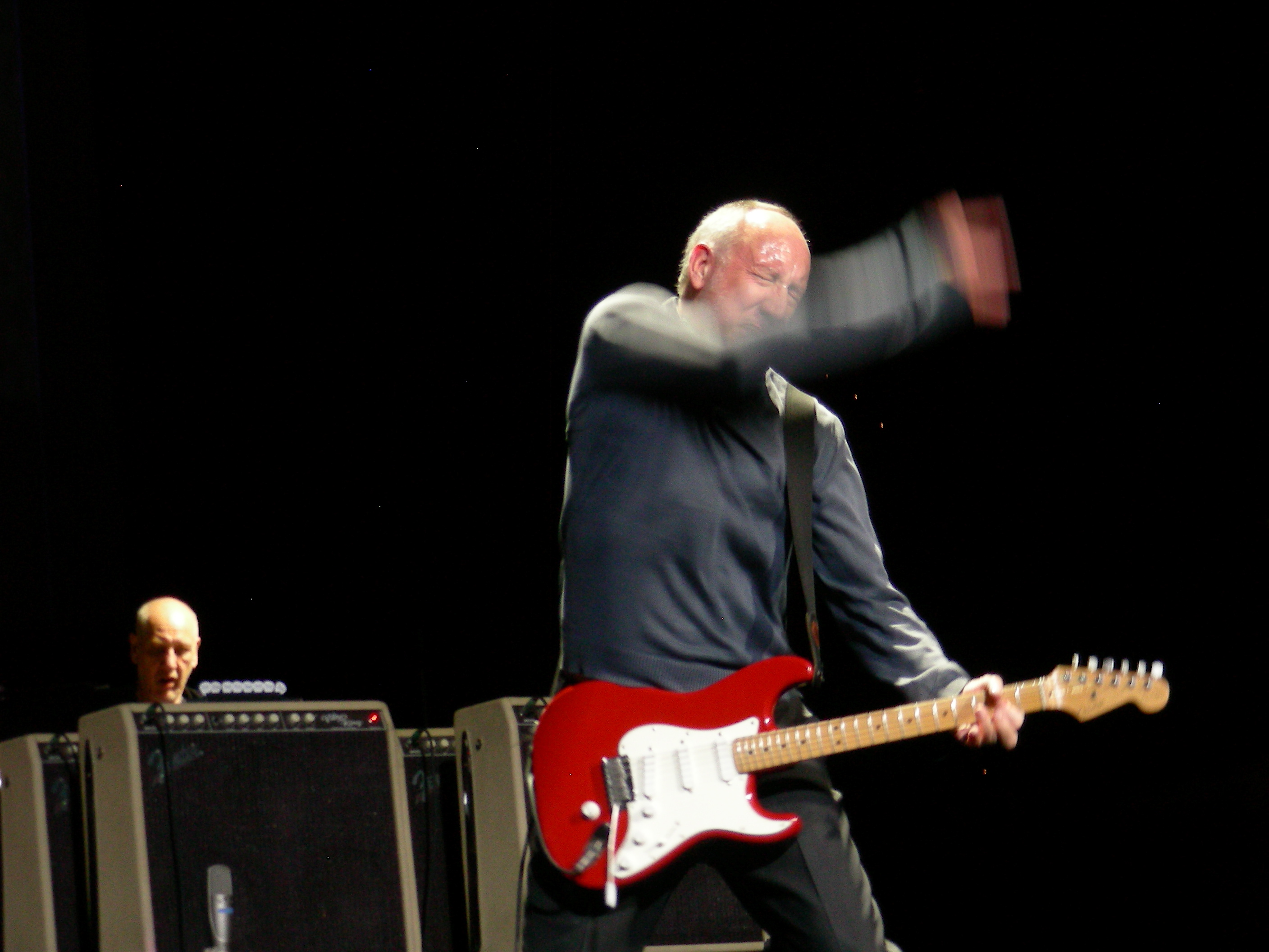 Pete Townshend doing his tradermark "windmill" movements on guitar. Philadelphia, PA, Oct. 26, 2008.